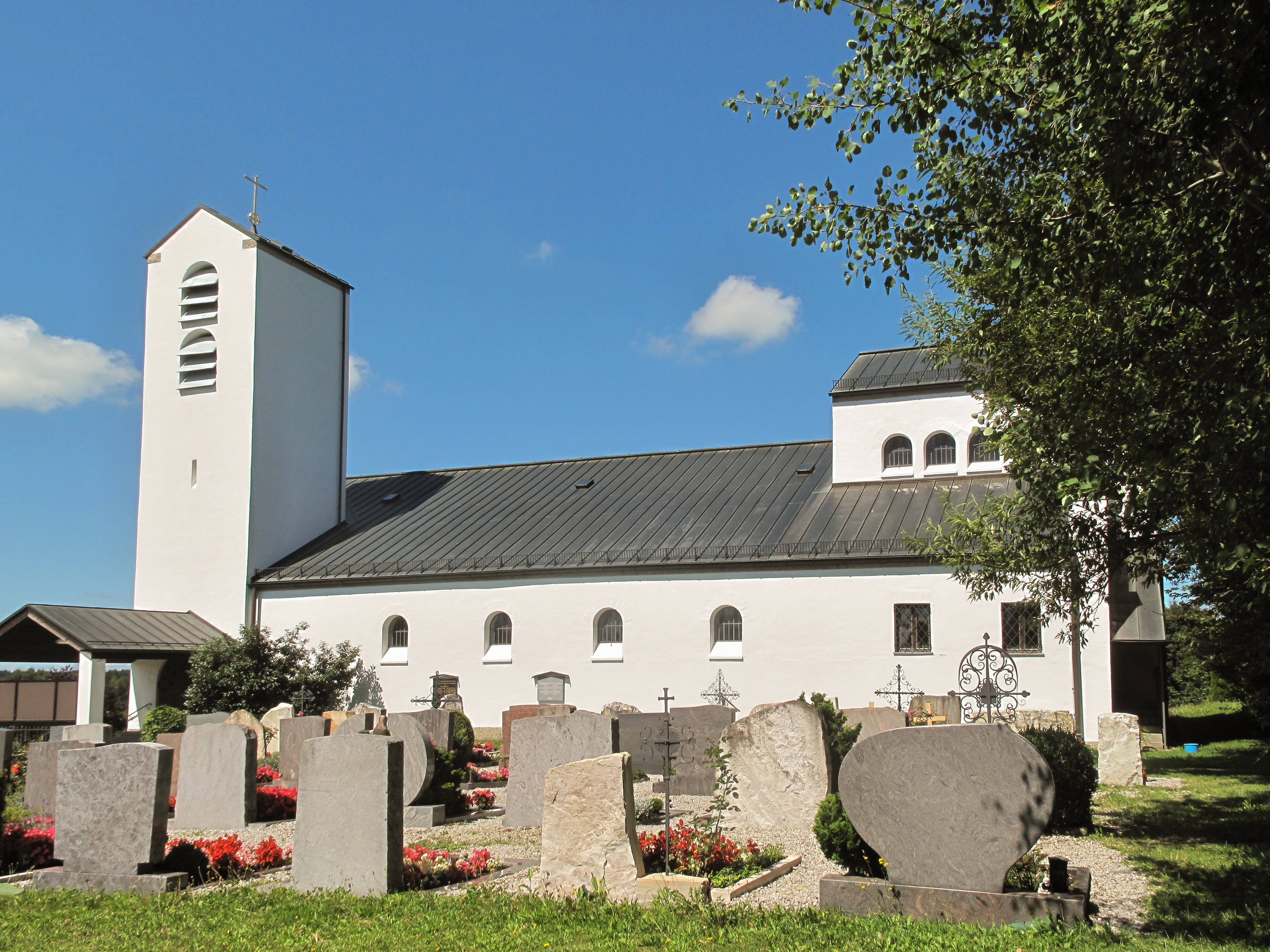 Höhenrain, church: die Herz Jesu Kirche